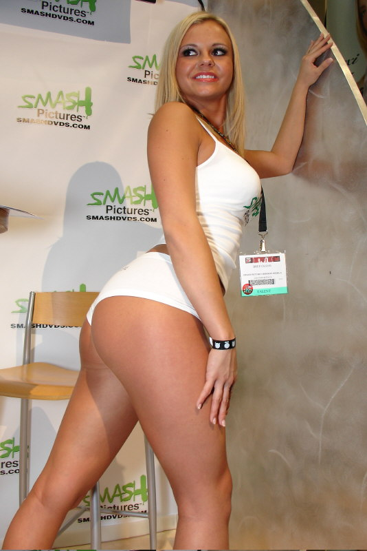 Bree Olson